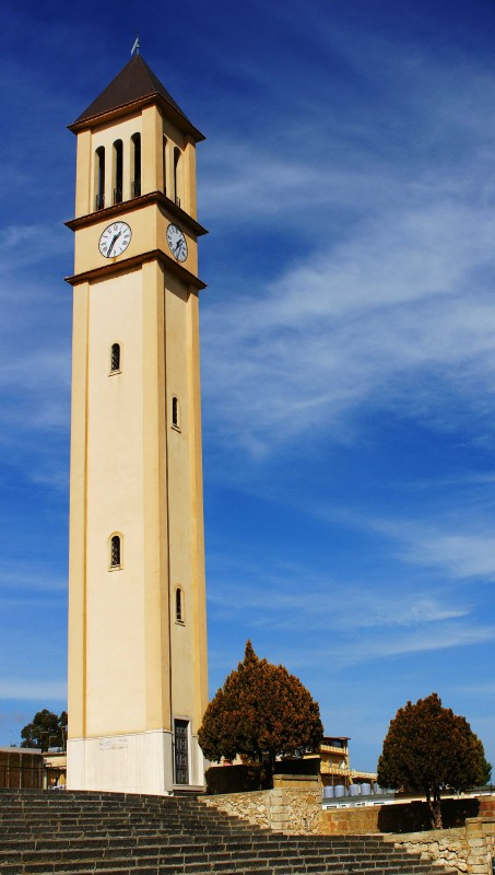 Chiesa del Cristo Re (città di San Cataldo, provincia Caltanissetta)(1).jpg